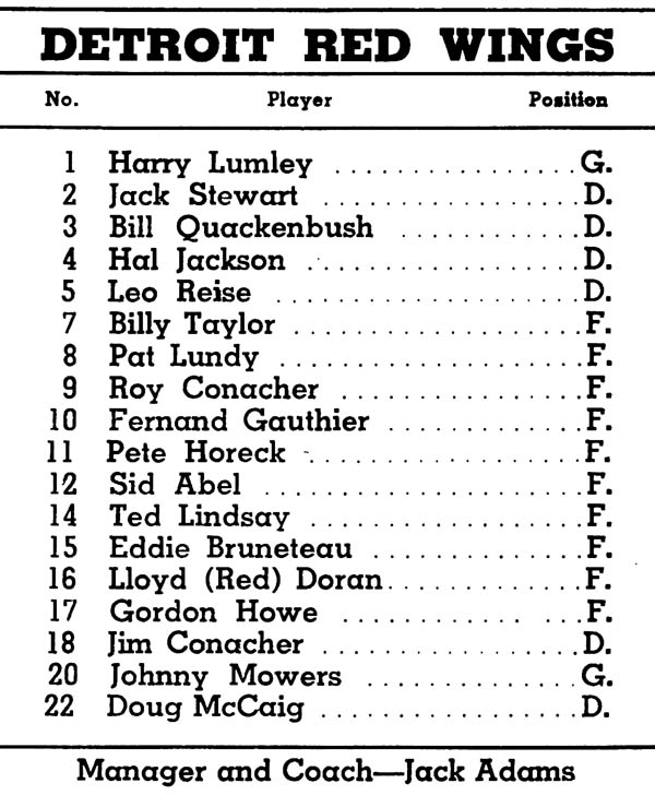 As a rookie with the Detroit Red Wings in 1946-47 future Hall of Famer Gordie Howe wore #17 instead of his trademark #9.